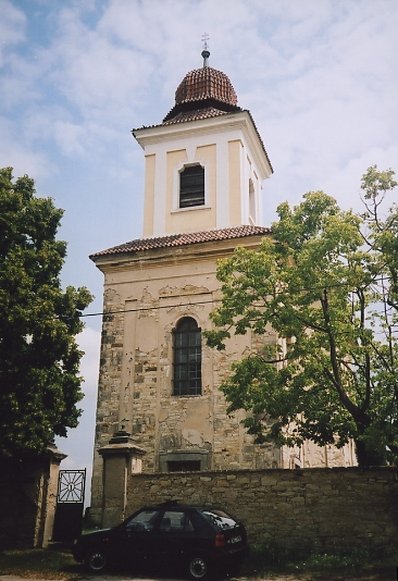 Village of Kostelec nad Ohri, church